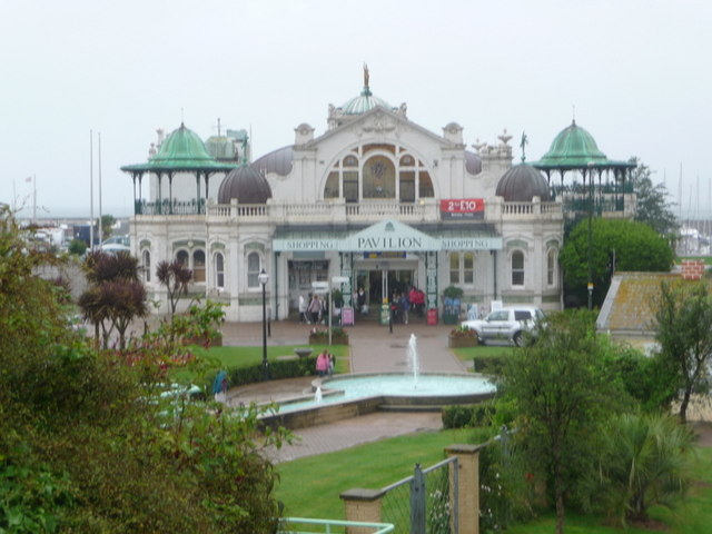 Torquay: The Pavilion Viewed from the footbridge over Cary Parade.